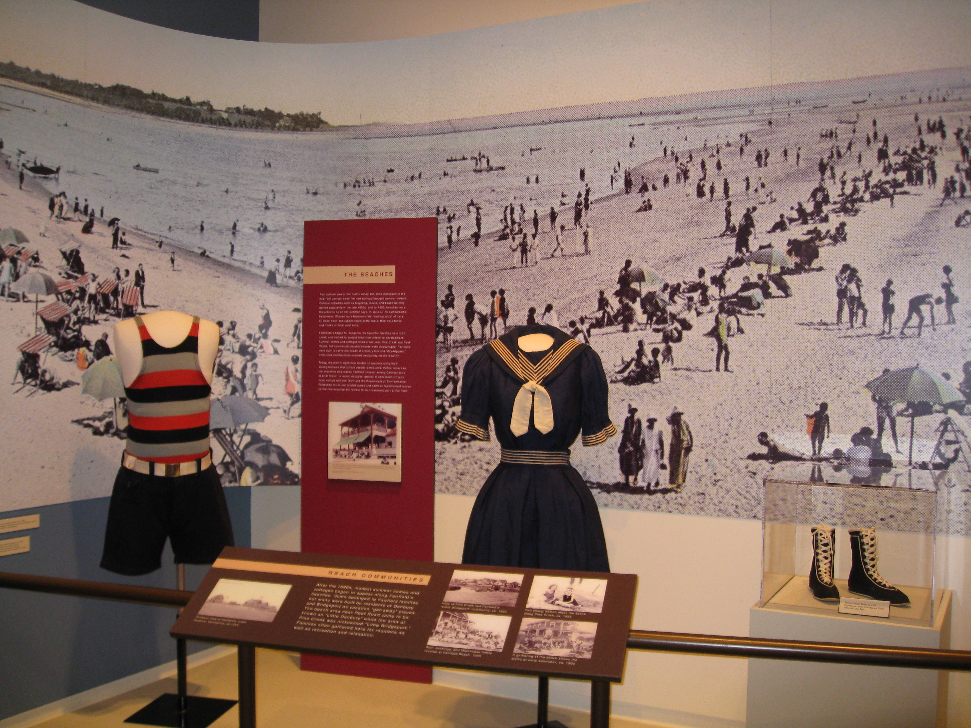 Beach display, Fairfield Museum & History Center, Fairfield, CT